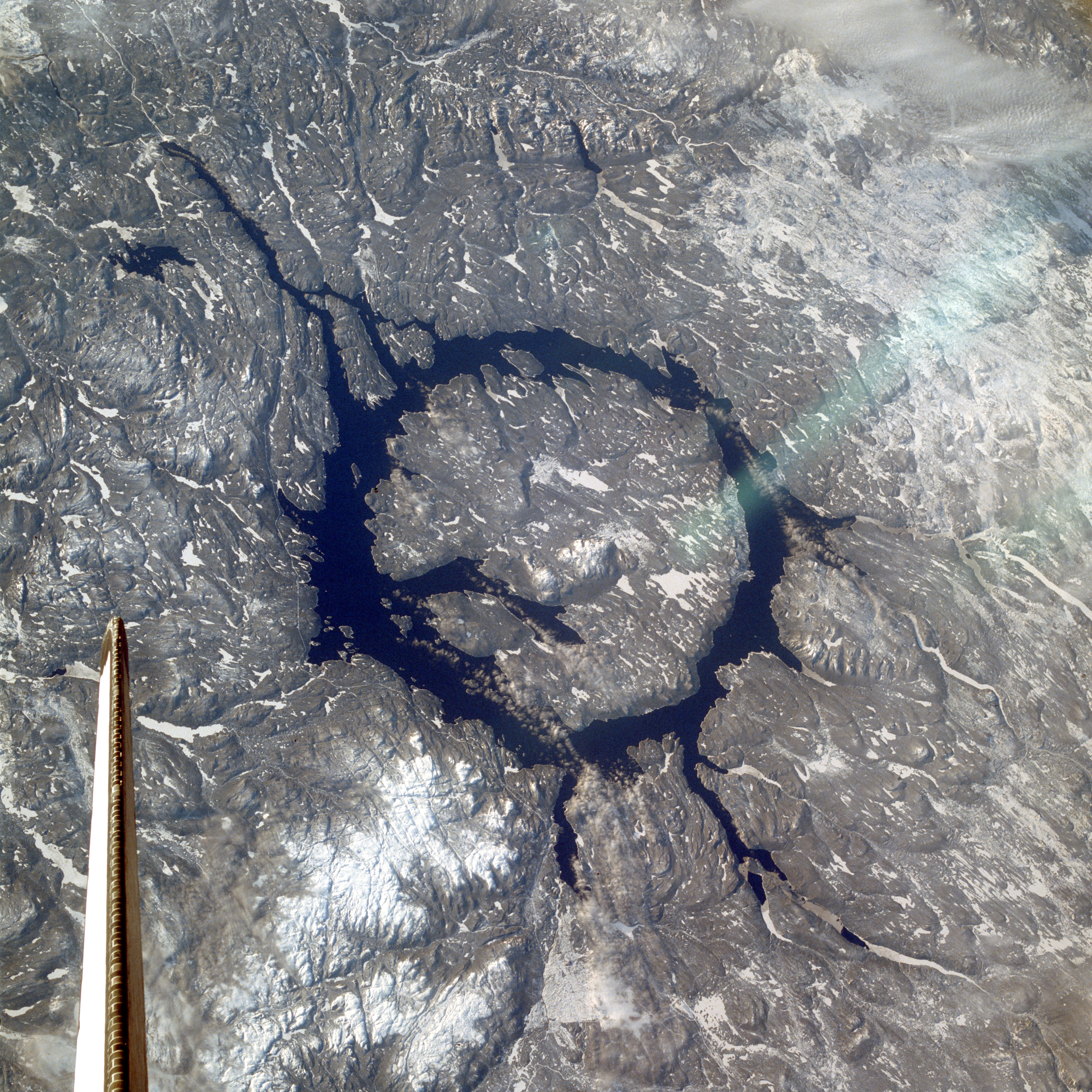 STS009-048-3139 Manicouagan Reservoir, Canada December 1983. Located in a rugged, heavily timbered area of the Canadian Shield in Quebec Province, Manicouagan Reservoir is impressive in this low-oblique, west-looking photograph. The reservoir, a large annular lake, marks the site of an impact crater 60 miles (100 kilometers) wide. Formed almost 212 million years ago when a large meteorite hit Earth, the crater has been worn down by many advances and retreats of glaciers and other processes of erosion. The reservoir is drained at its south end by the Manicouagan River, which flows from the reservoir and empties into the Saint Lawrence River nearly 300 miles (483 kilometers) south.